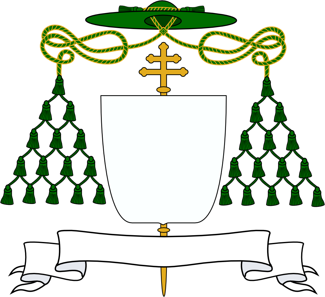 Primate (non cardinal) coat of arms (in memory of 85th birthday anniversary of John Paul II)